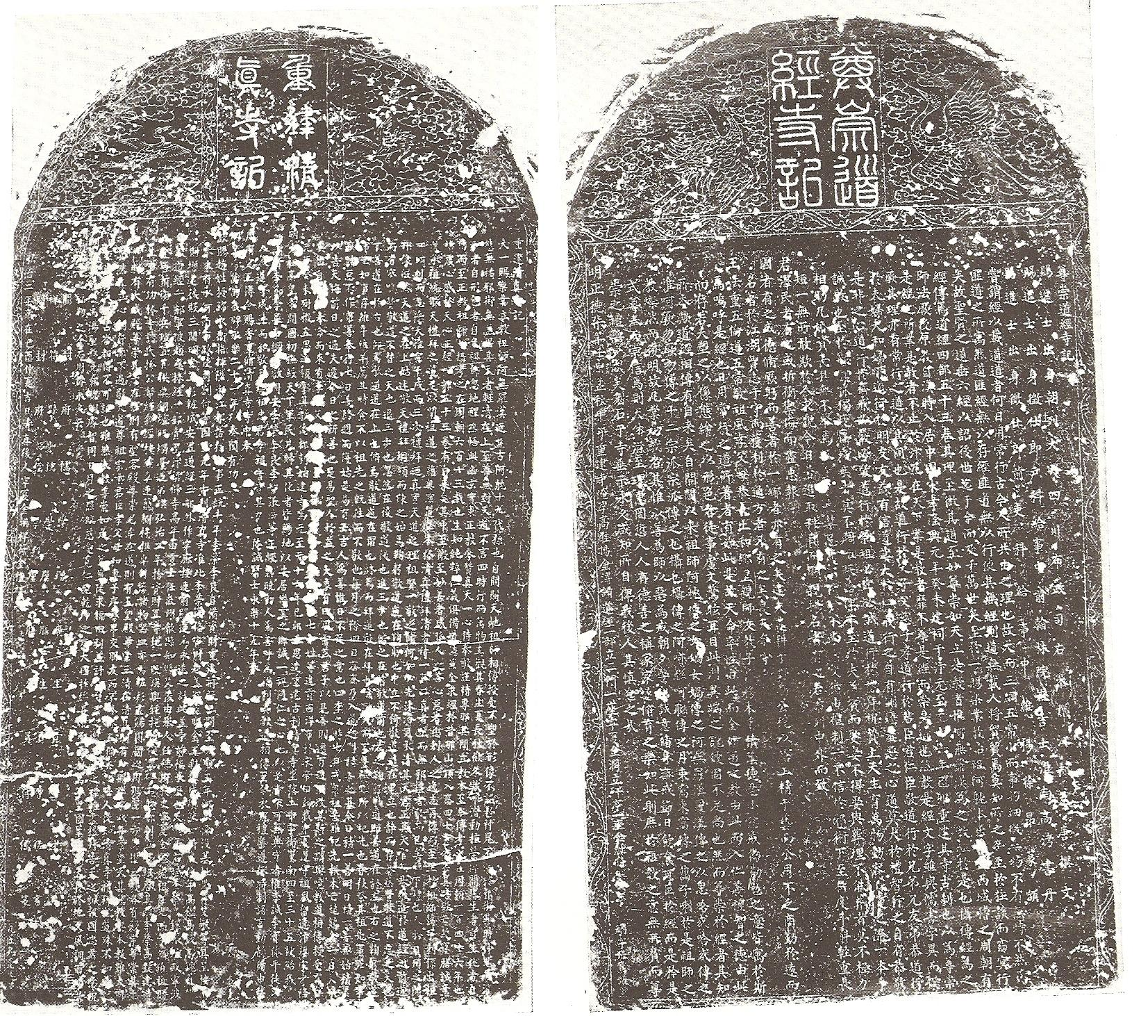 Composite of two 18th century ink rubbings of the 1489 (left) and 1512 (right) stone inscriptions left by the Kaifeng Jews. They are featured on pp. 34 and 50 of Chinese Jews (1966) by Bishop William Charles White. These same rubbings were first published in Inscriptions juives de K'ai-fong-fou (1900) by Jerome Tobar.